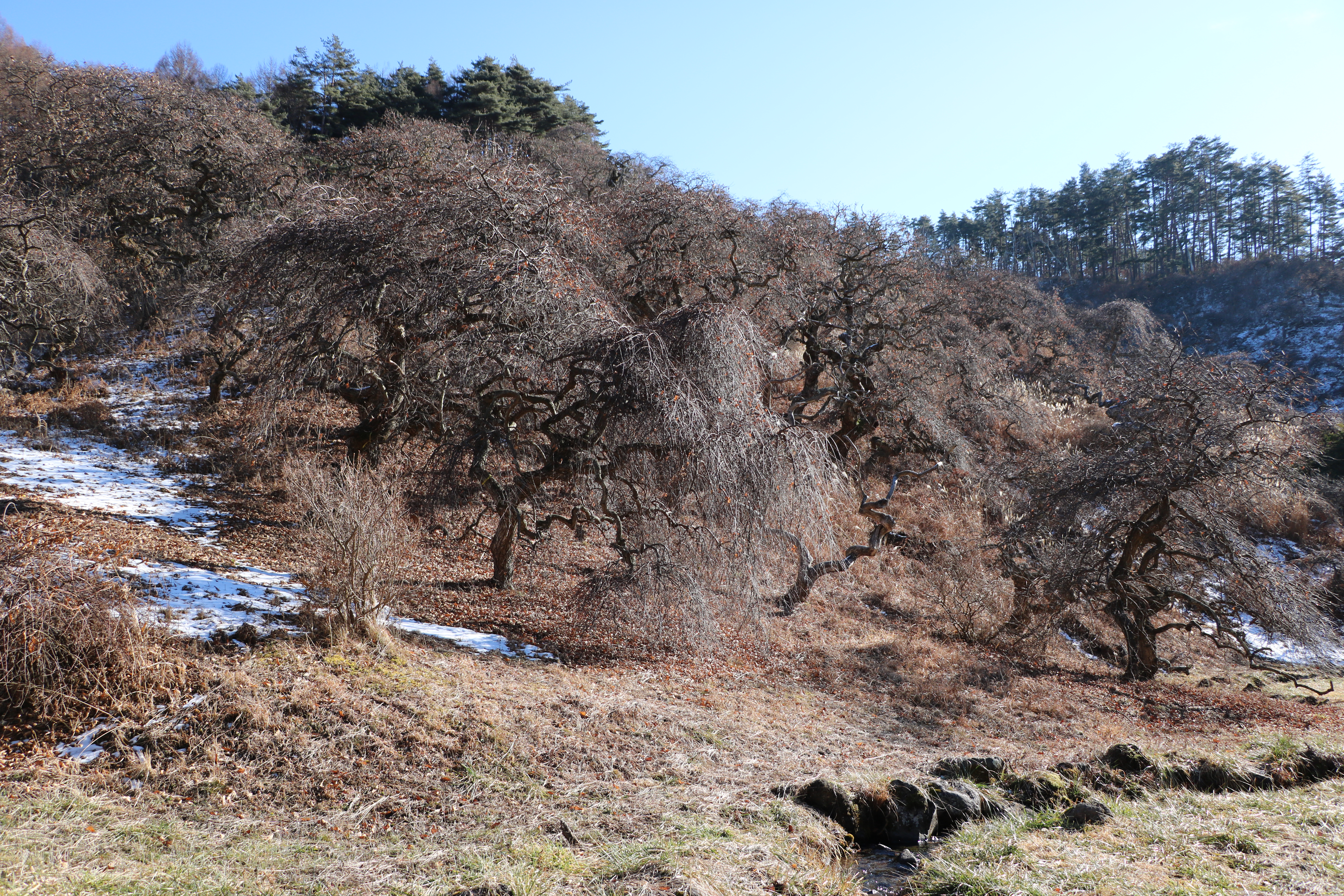 Weeping Type Japanese Chestnut Habitat in Ono District